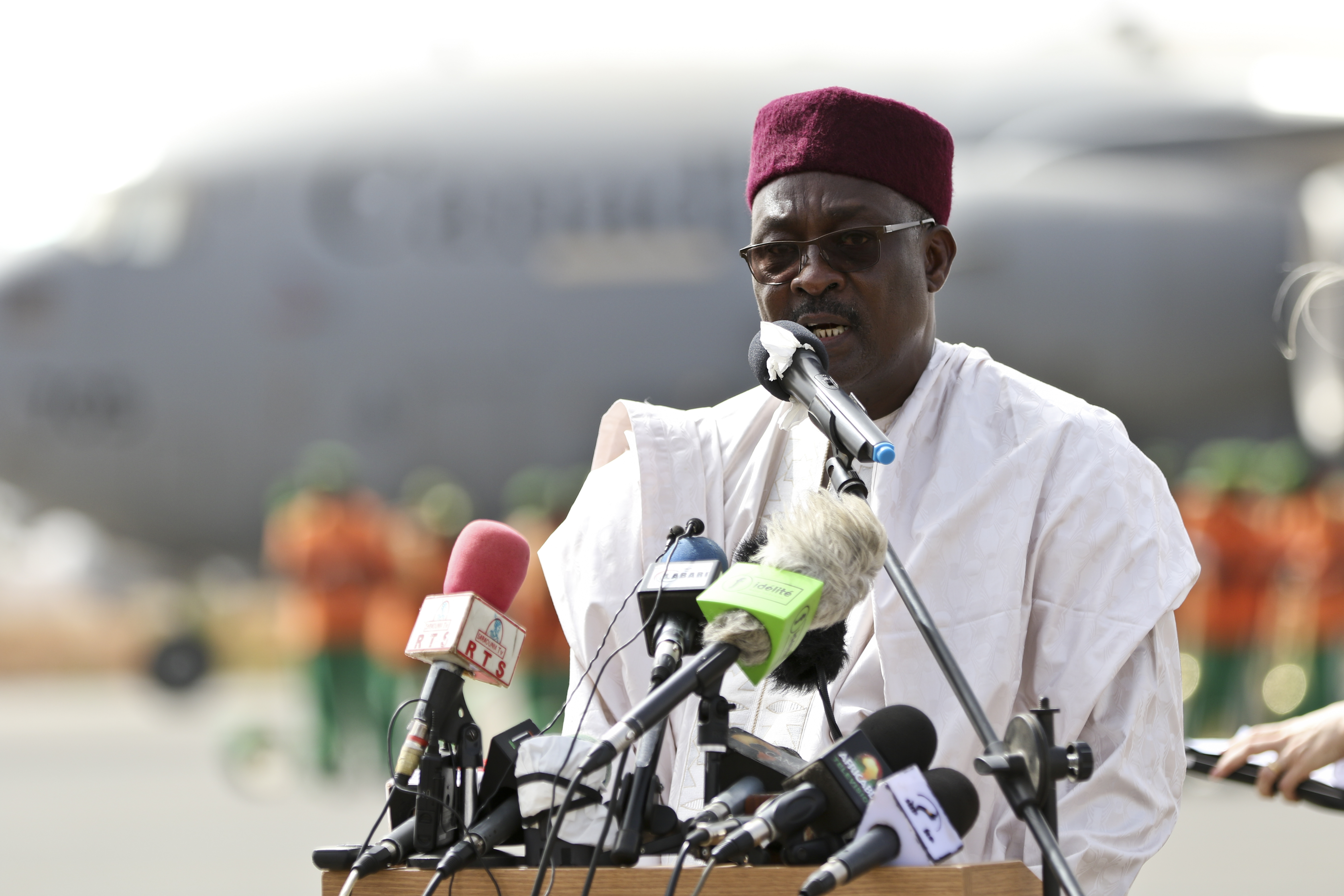 NIAMEY, Niger - Moutari Kalla, Nigerian Minister of Defense, speaks during the opening ceremony of Flintlock 2018 in Niamey, Niger, April 11, 2018.